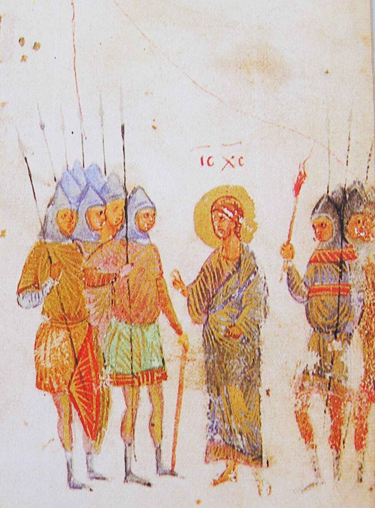 Kievan Psalter